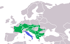 Distribution of Bombina variegata (green) and Bombina pachypus (blue), based on Nöllert/Nöllert: "Die Amphibien Europas" and Kwet: Reptilien und Amphibien Europas.